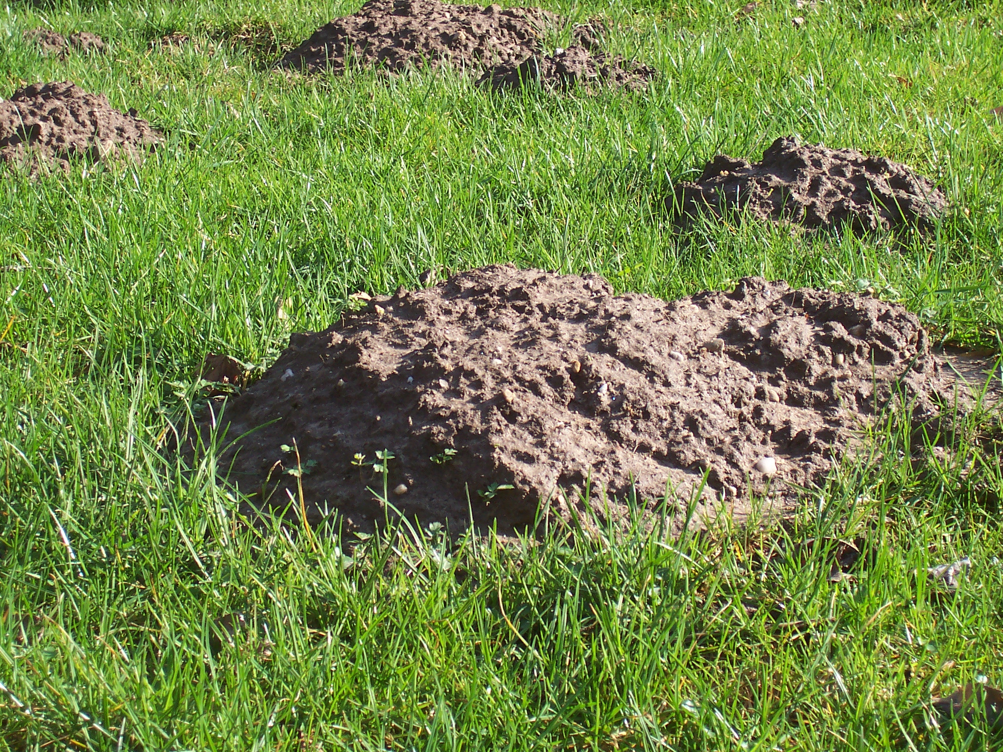 molehill